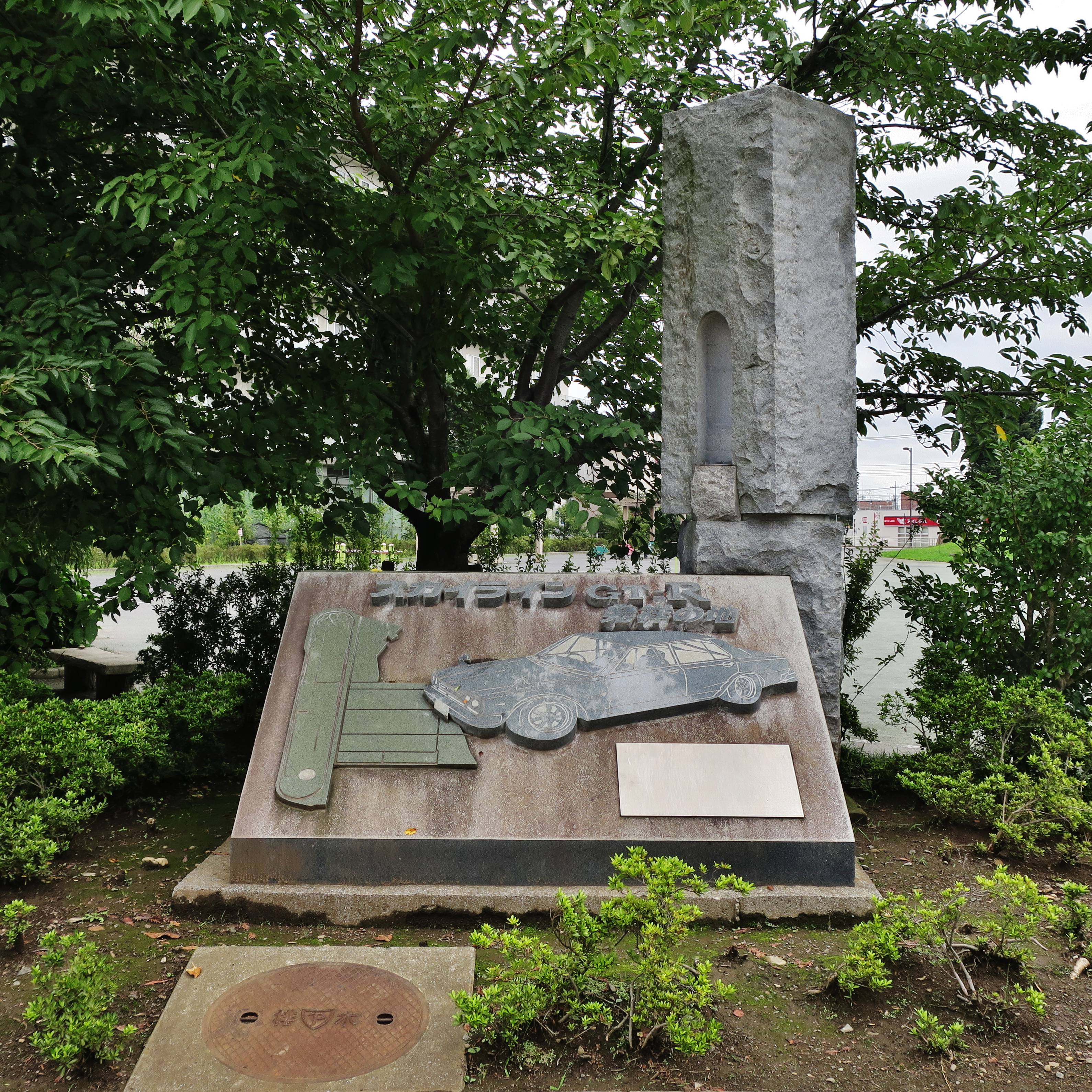 Prince-no-oka Park (Musashimurayama, Tokyo).